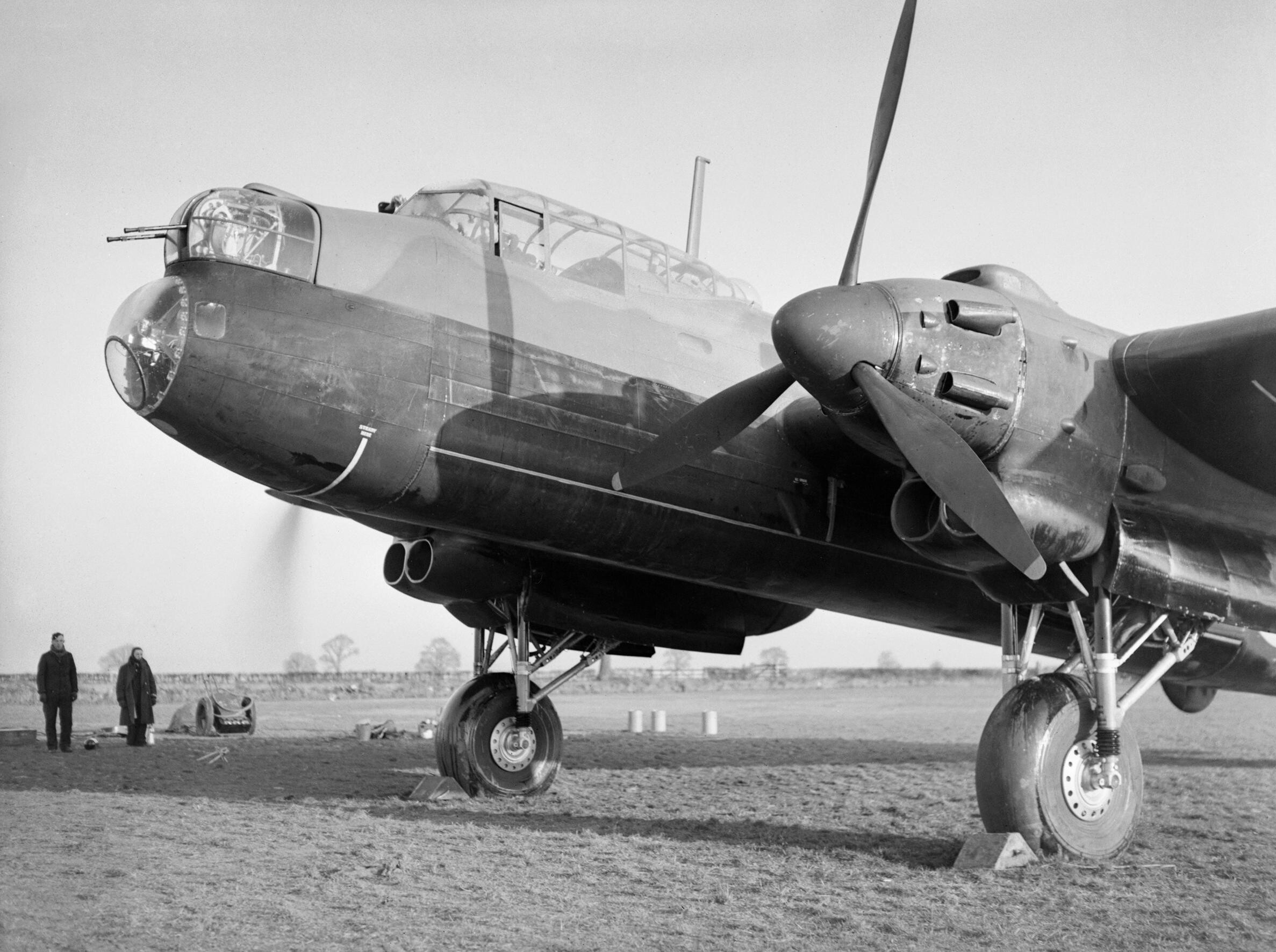 Avro Manchester Mk I of No. 207 Squadron RAF at Waddington, Lincolnshire, 12 September 1941. The forward section of an Avro Manchester Mark I of No. 207 Squadron RAF, while running up the port Rolls-Royce Vulture II engine at Waddington, Lincolnshire, showing the nose with the bomb-aimer's window, the forward gun-turret and the pilot's cockpit.